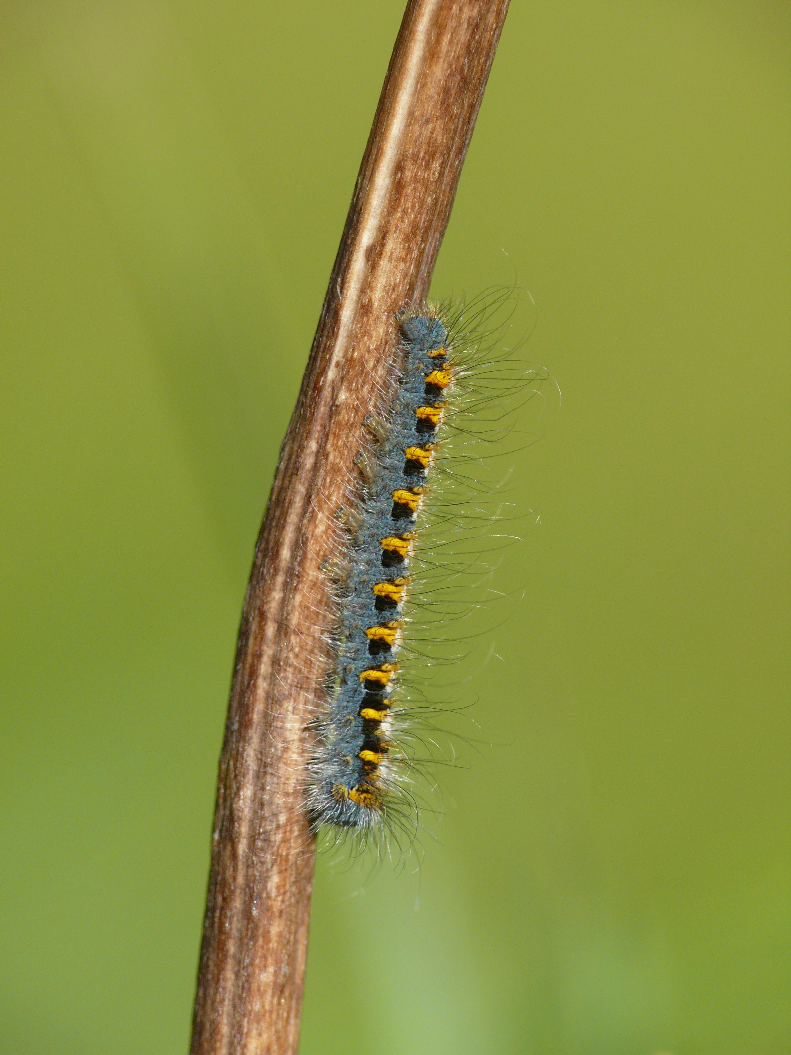 Caterpillar (L1) of Oak Eggar (Lasiocampa quercus), Krumltal, Pinzgau, Salzburg (state), Austria, ca 1800 msm